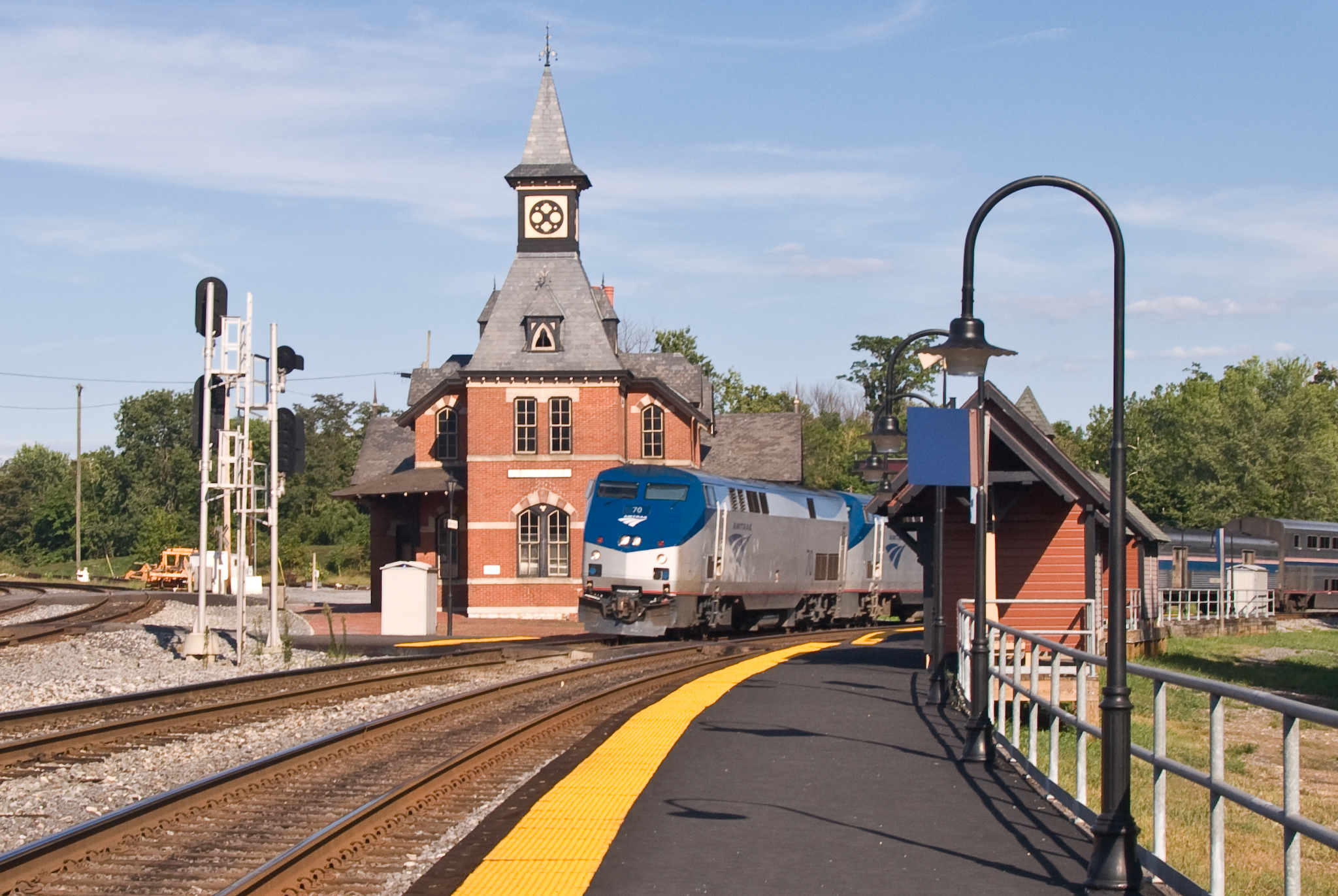 Amtrak locomotive number 70 pulls the Capitol Limited westbound through the Point of Rocks station in Point of Rocks, Maryland.